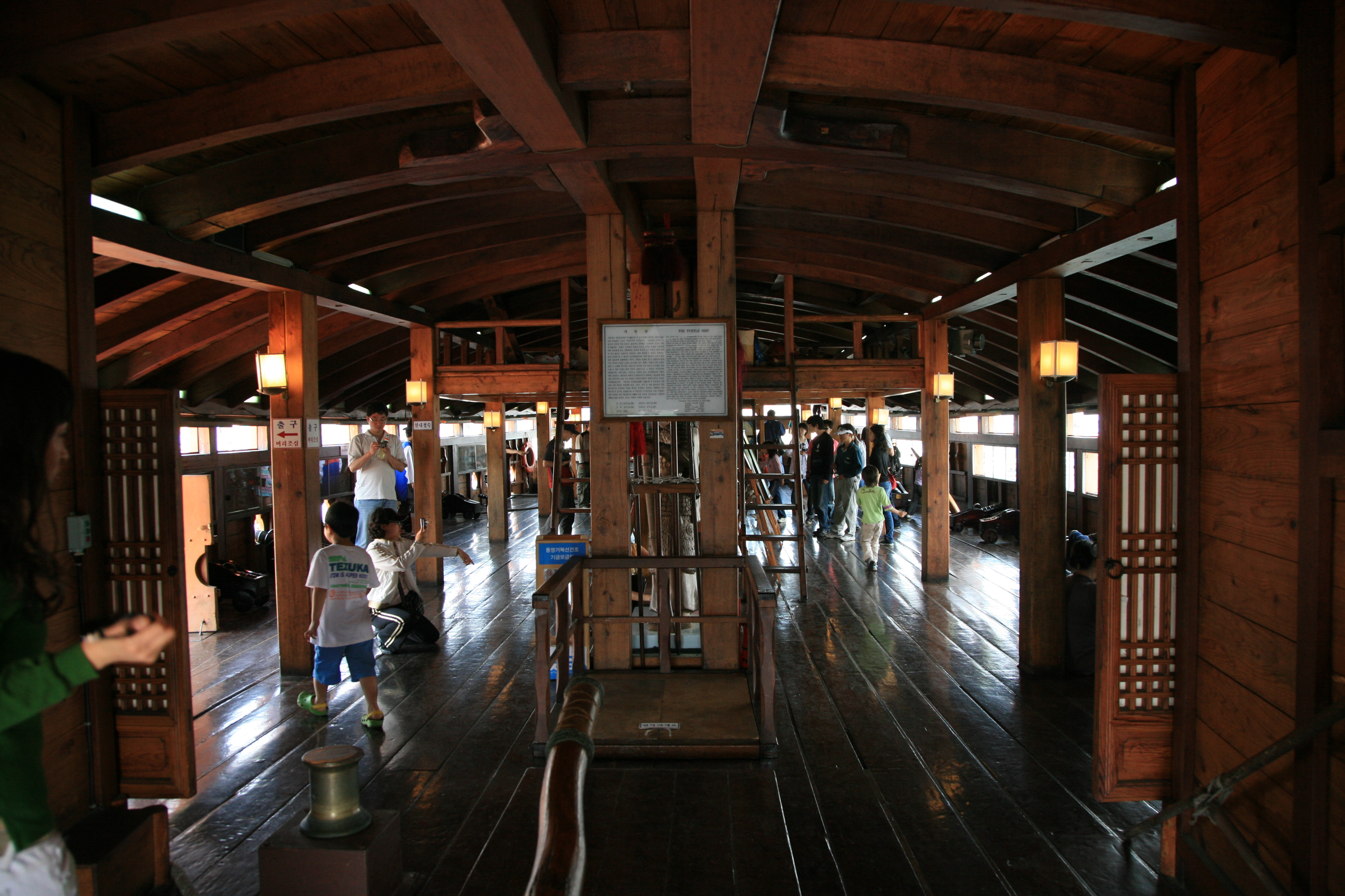 View of Hallyeo National Marine Park in Tongyeong, South Gyeongsang province, South Korea